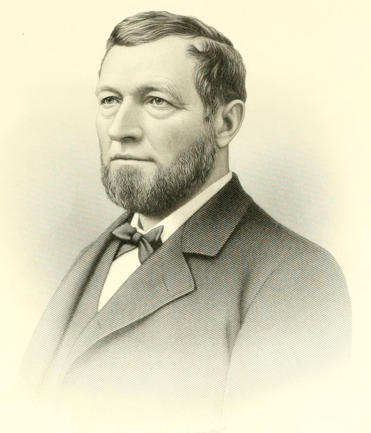 Portrait of John Crosby, early founder of General Mills.